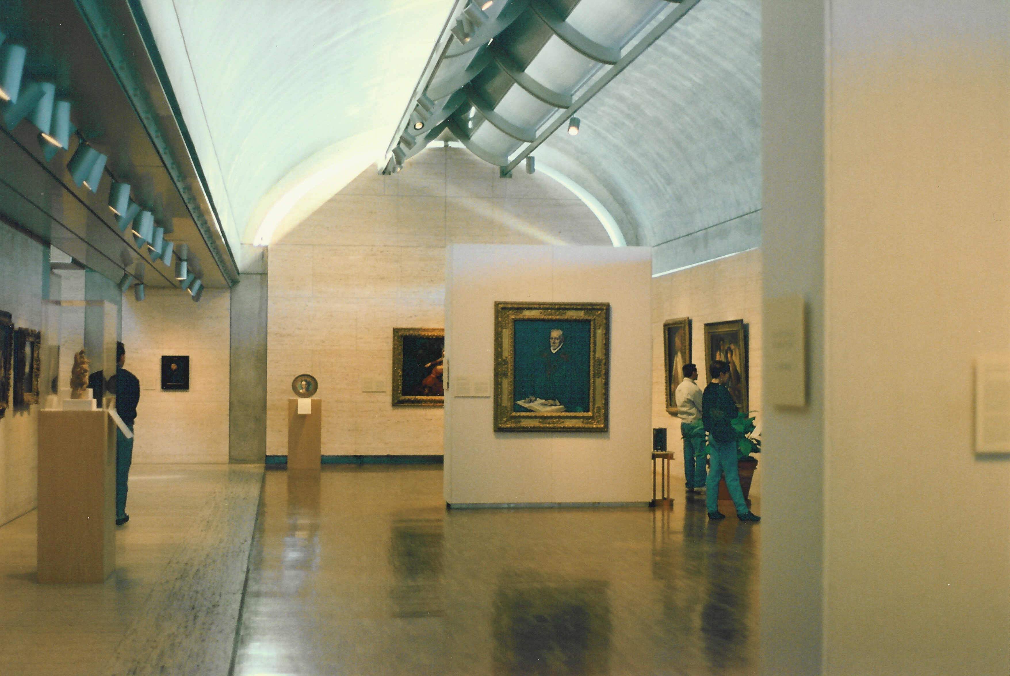 Template:Interior, Kimbell Art Museum, Fort Worth, Texas